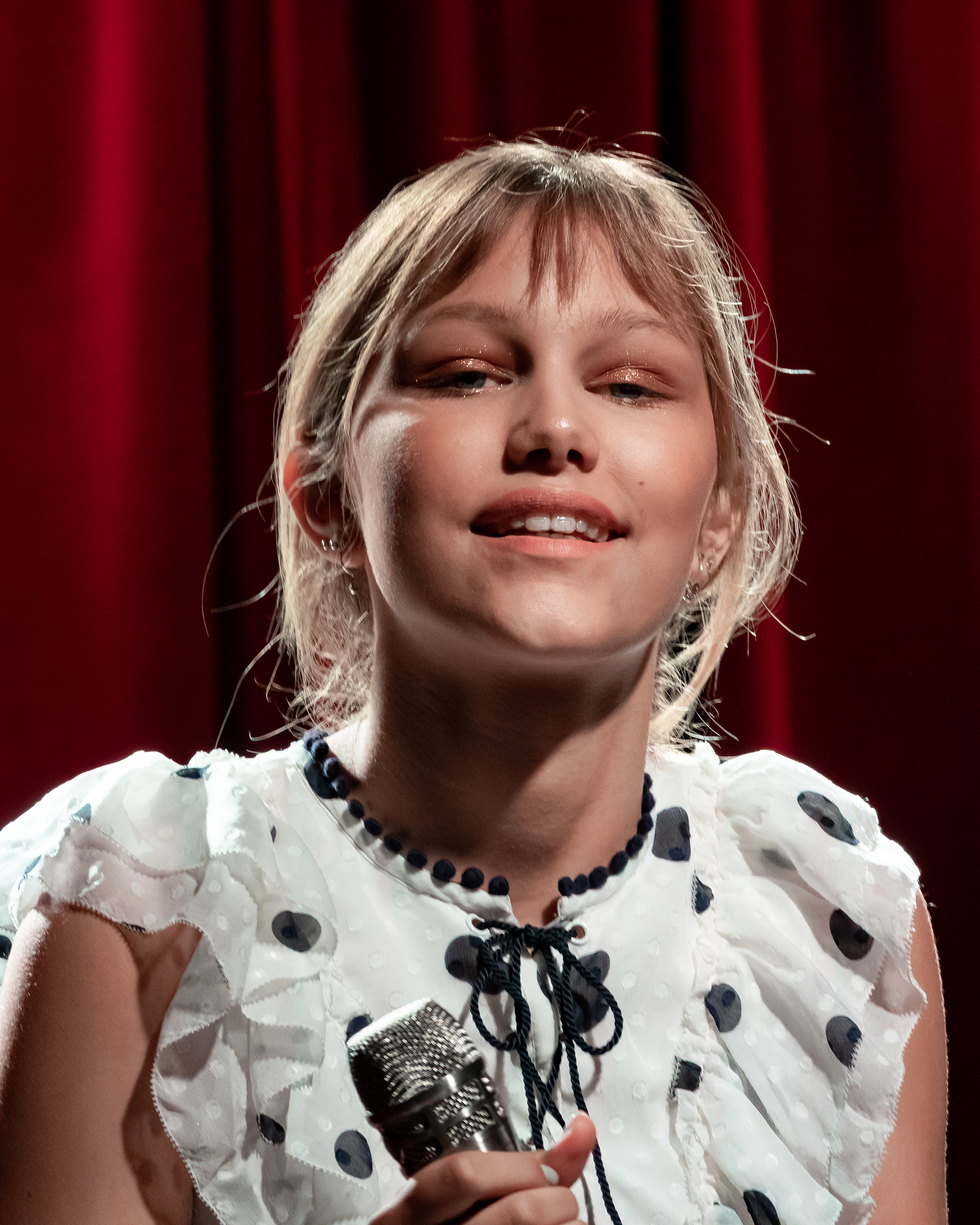 Grace VanderWaal performing live at the Grammy Museum in Los Angeles, California, on Sunday, July 22, 2018.